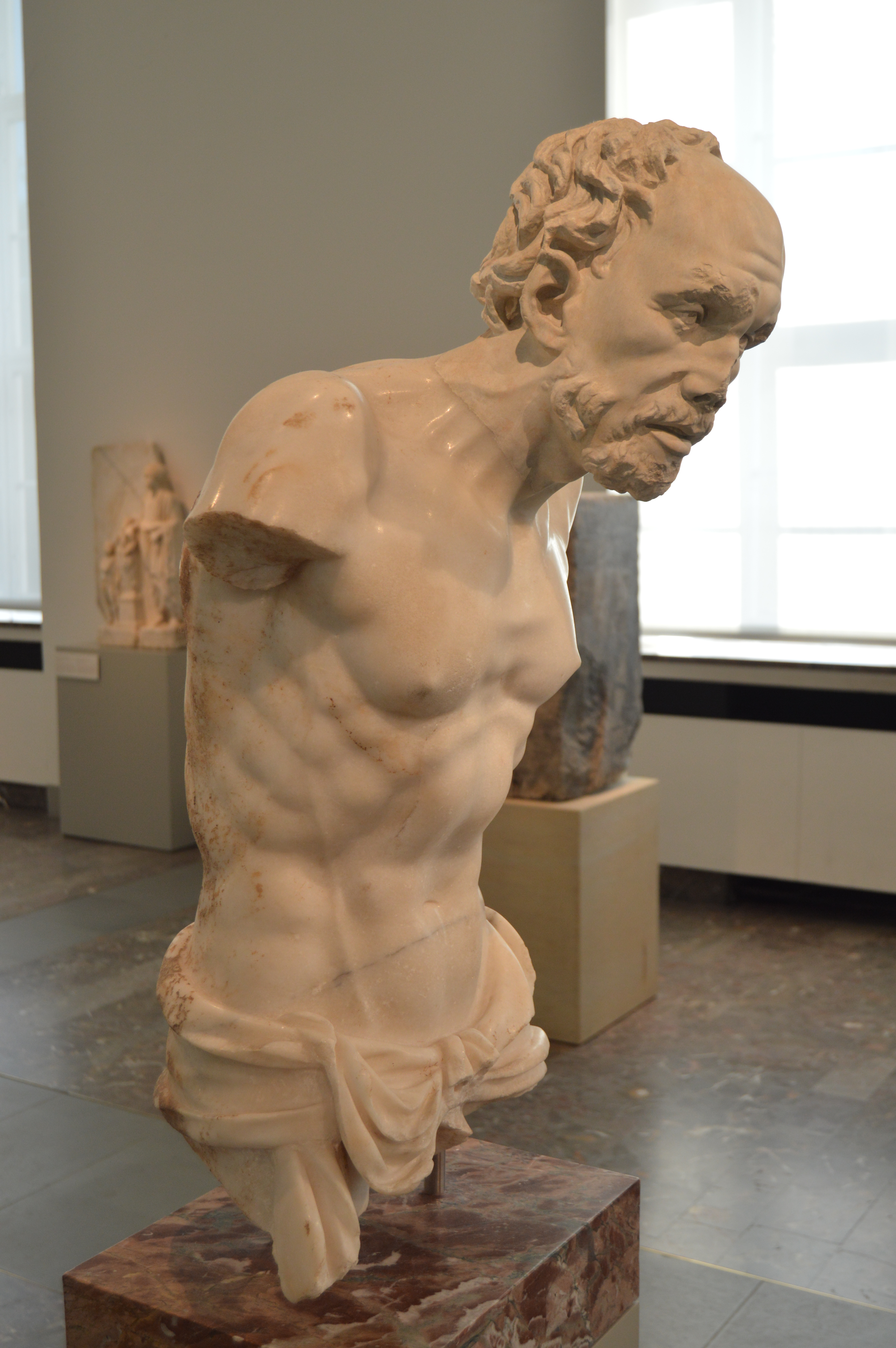 Torso of an Old Fisherman at Altes museum in Berlin.